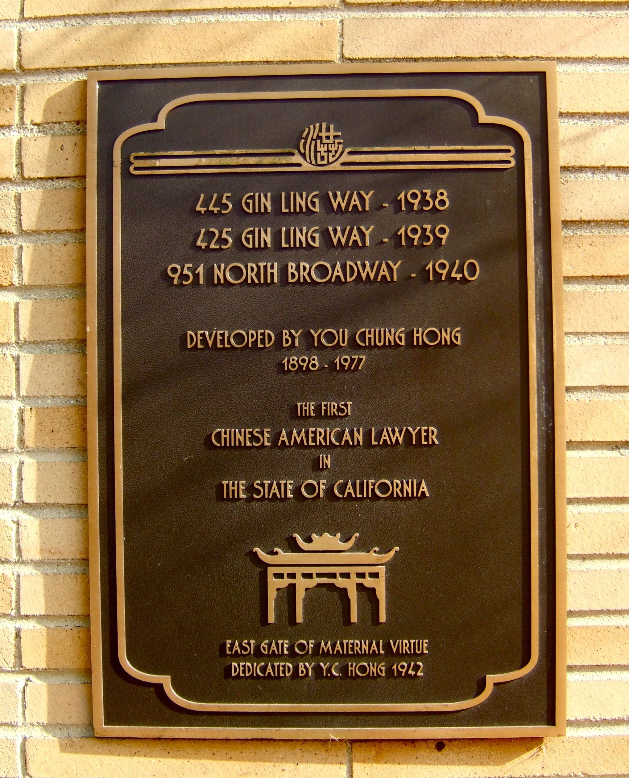 Memorial plaque to You Chung Hong, California lawyer, in Los Angeles New Chinatown, 2012 Other information Photo by George Garrigues.